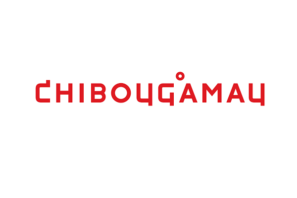 Flag of chibougamau